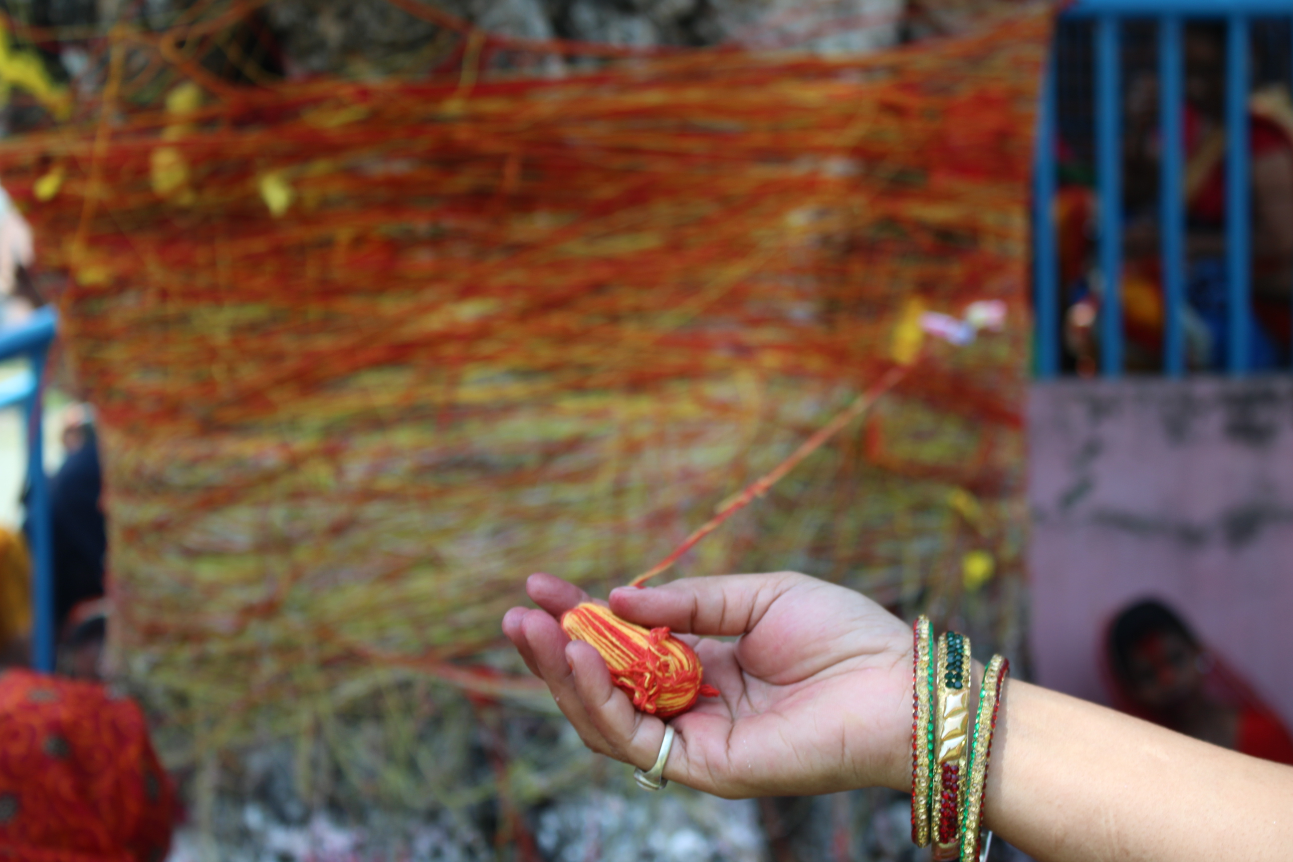 Barsait is the puja of Maithili people and is celebrated on the full moon day (the 15th) of the month of Jyeshtha on the Hindu calendar, which falls in June on the Gregorian calendar. In 2016 Vat Purnima is on June 19th. Women pray for the prosperity and longevity of their husbands by tying threads around a banyan tree or waṭ, which is called "pipal puja", on this day. It honours Savitri, the legendary wife who rescued her husband's soul from the ruler of the departed, Yama.